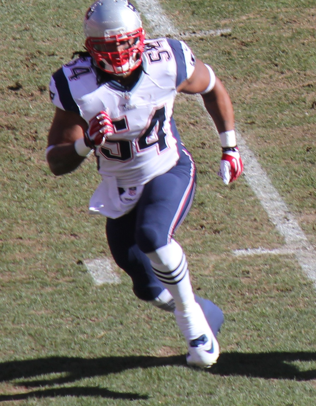 New England Patriots linebacker, Dont'a Hightower, in the 2013 post-season game against the Denver Broncos.